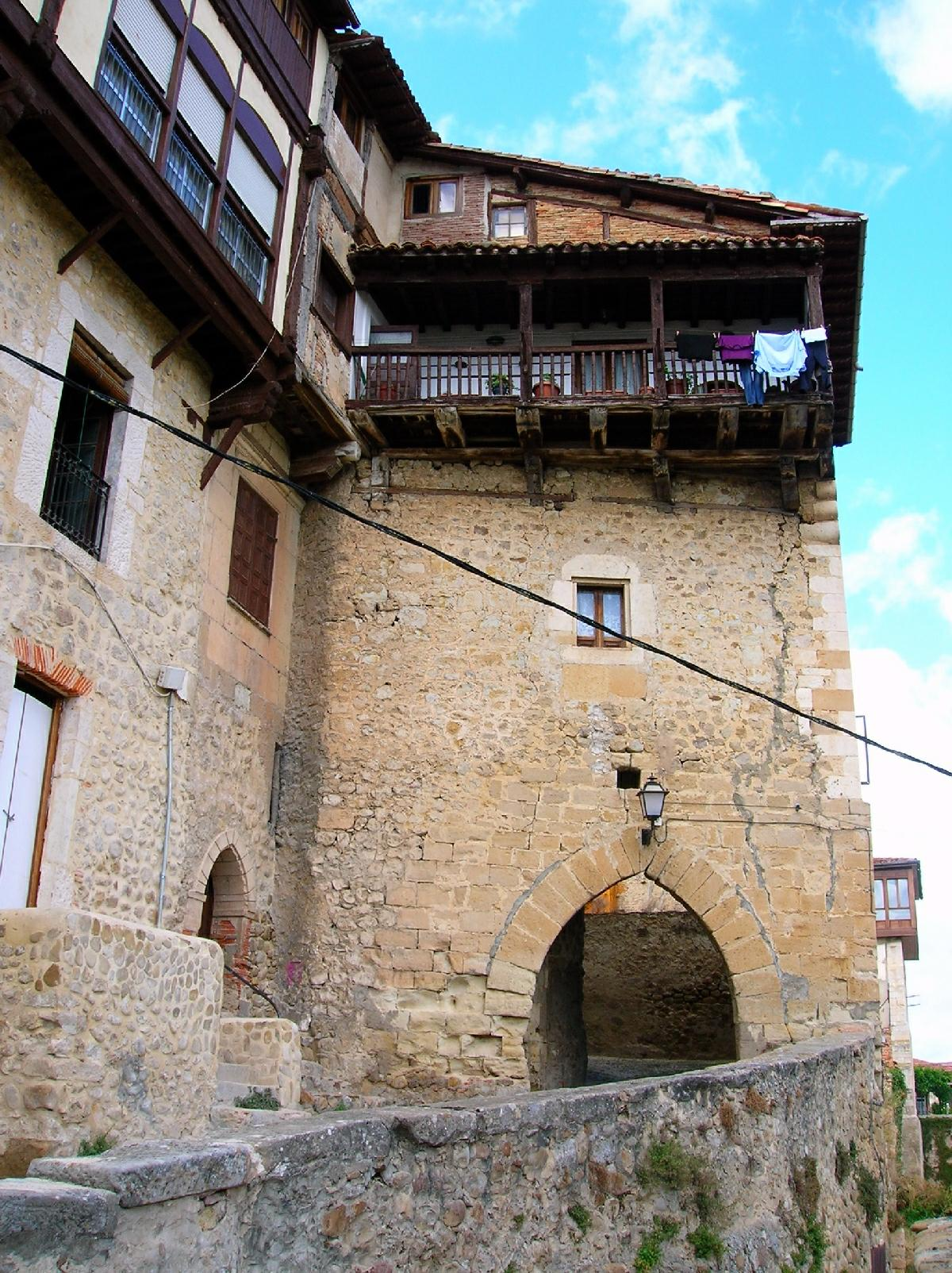 Puerta amurallada en Medina de Pomar (provincia de Burgos, España)